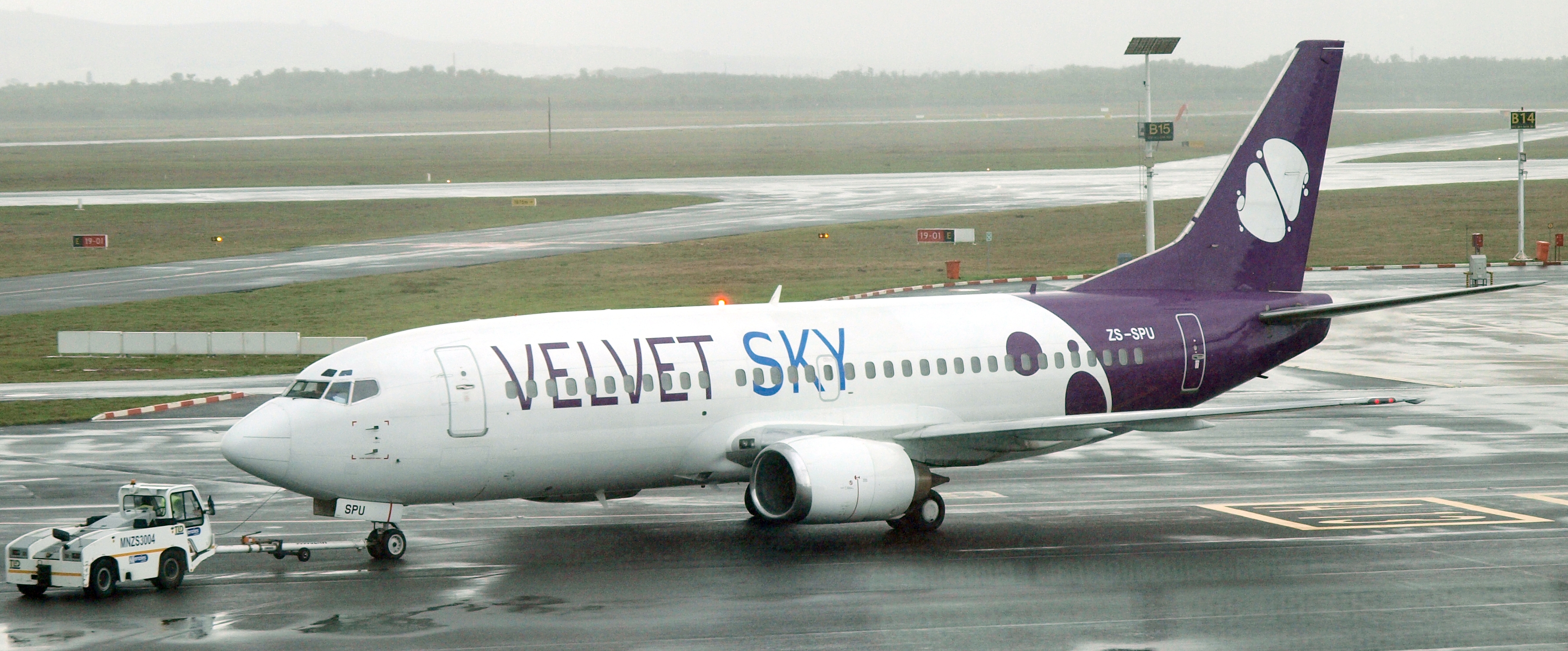 Boeing 737-300 (ZS-SPU) of Velvet Sky Airline on pushback from the gate at Cape Town International Airport on 24 June 2011.